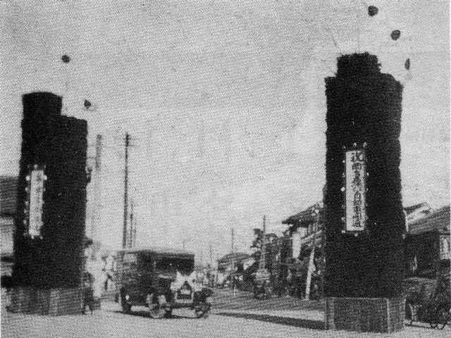 JNR Bus Okata Line